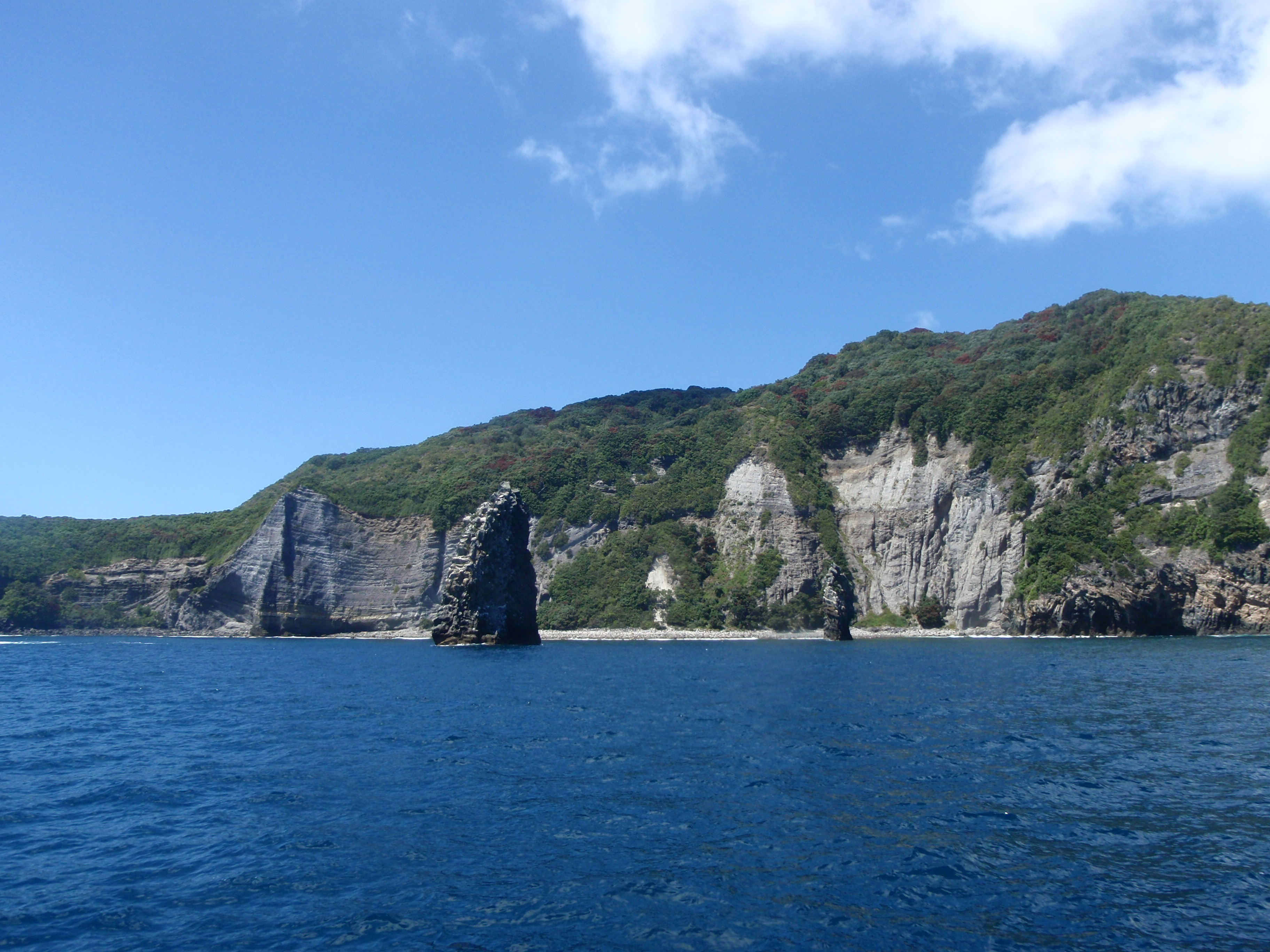 Shoreline of the Mayor Island MPA